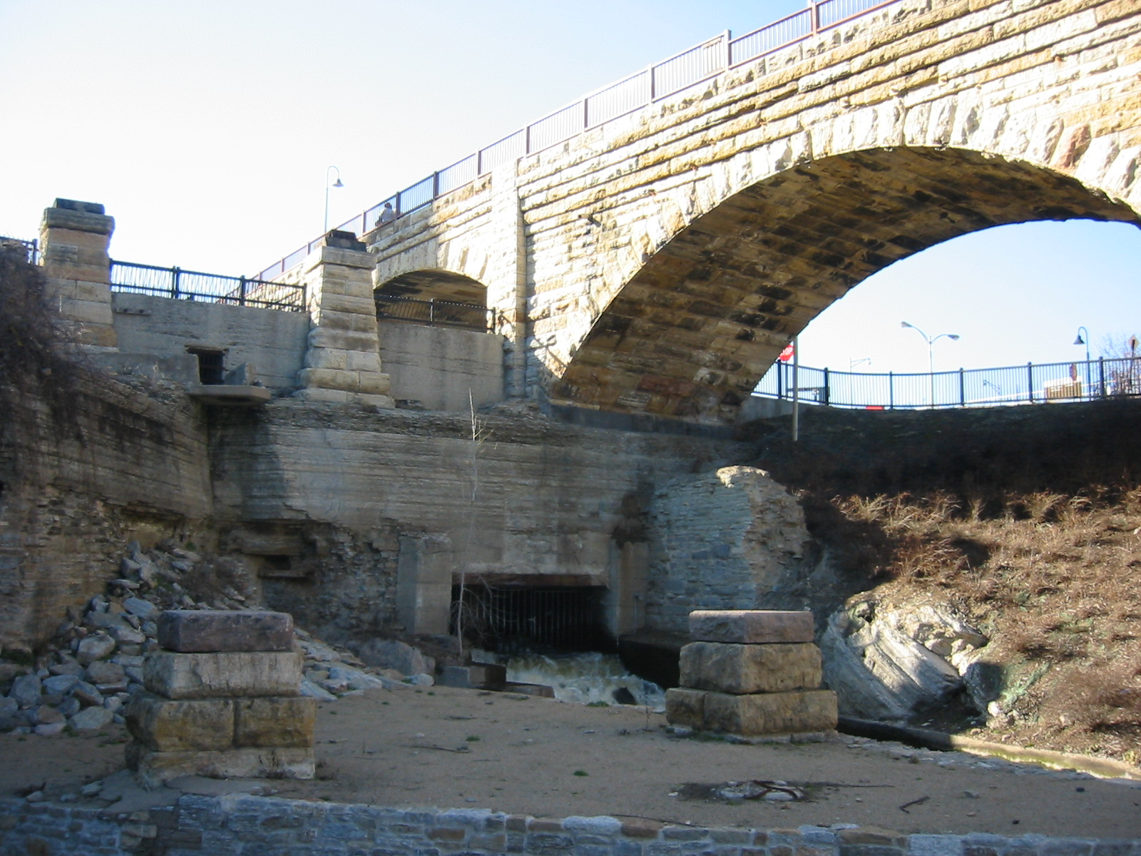 Mill Ruins Park in downtown Minneapolis, Minnesota, adjacent to Saint Anthony Falls. This photo shows the Stone Arch Bridge at the top right, along with the output of a tunnel that provided water power to mills along its length.